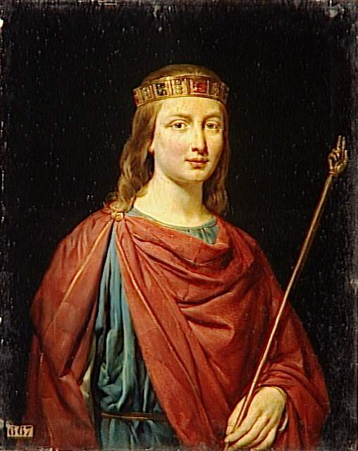 Portraits of Kings of France is a serie of portraits commissioned between 1837 and 1838 by Louis Philippe I and painted by various artists for the Musée historique de Versailles.